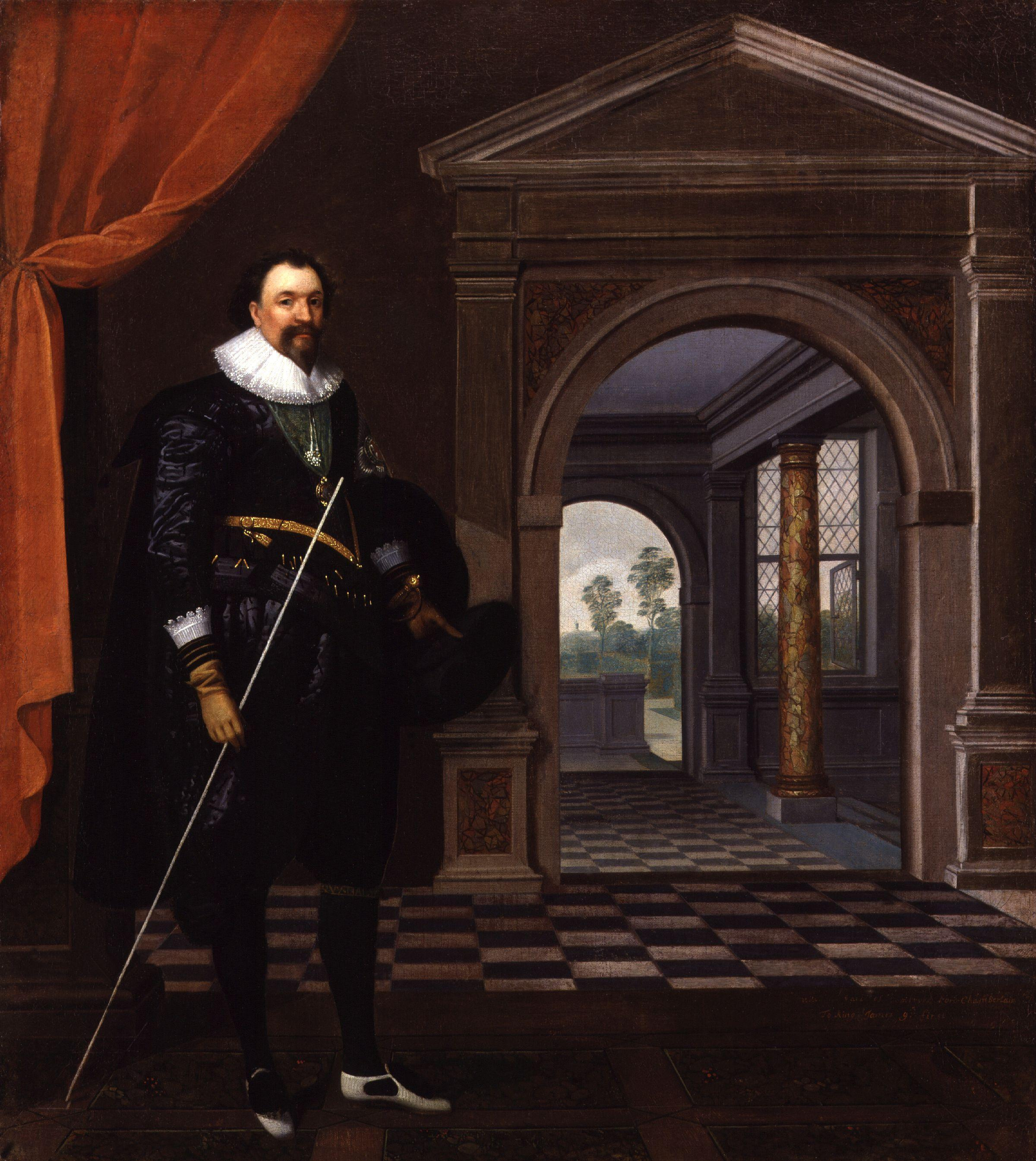 William Herbert, 3rd Earl of Pembroke, by Daniel Mytens (died 1647). All images in this batch have been confirmed as author died before 1939 according to the official death date listed by the NPG.